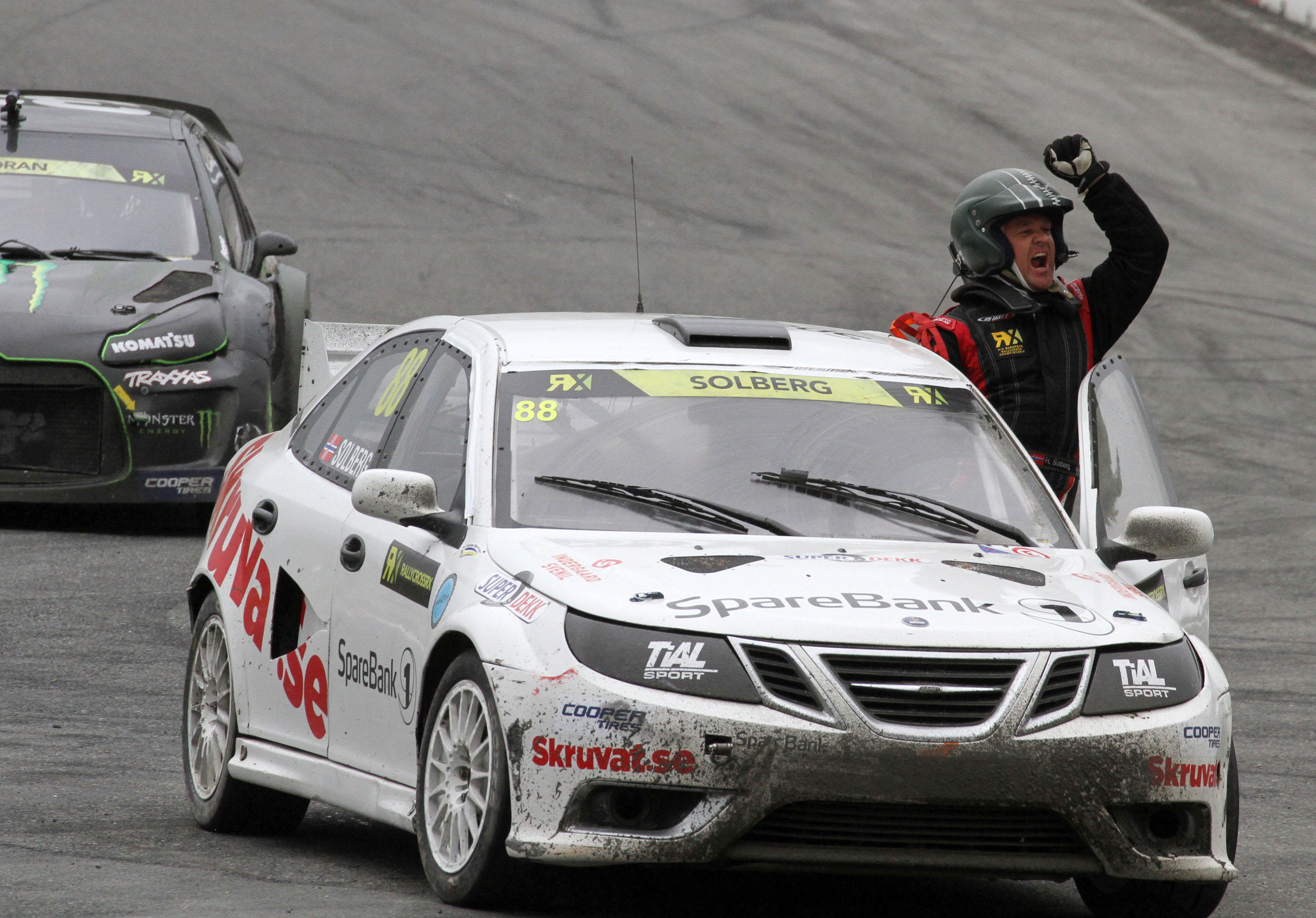 Henning Solberg (followed by Liam Doran) in his Saab 9-3 Supercar at Round 3 of the 2014 FIA World Rallycross Championship at Lånkebanen, Norway.